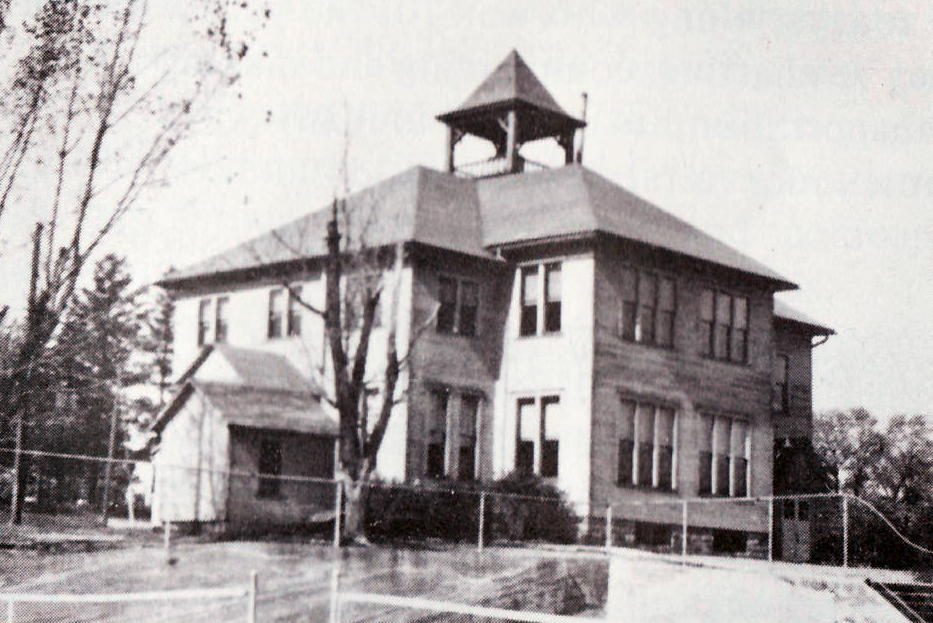 Comstock High School 1906-1941, located in Comstock Township, Michigan. Building was torn down in 1943